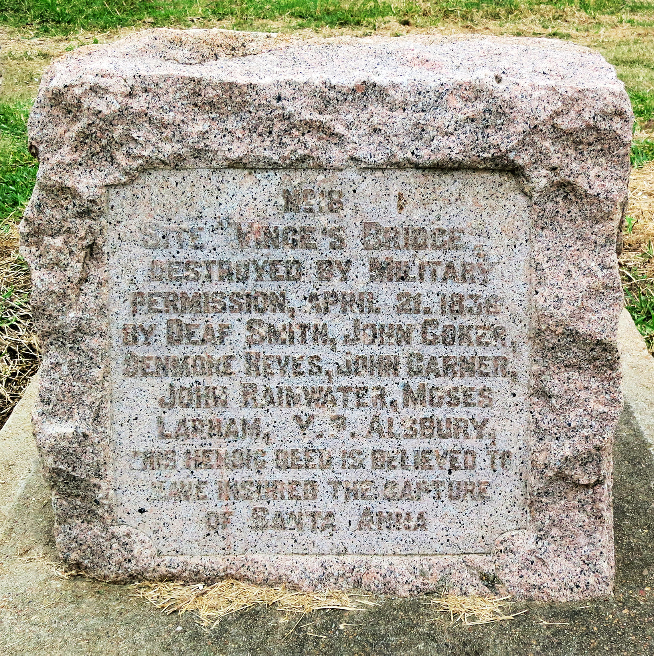 Marker located beside Vince's Bridge Text on marker: No 18 Site Vince's Bridge destroyed by military permission April 21, 1836 by Deaf Smith, John Coker, Denmore Reves, John Garner, John Rainwater, Moses Lapham, V.P. Alsbury. This historic deed is believed to have insured the capture of Santa Anna.